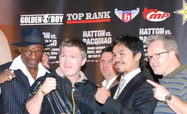 Ricky Hatton and Manny Pacquiao at the Trafford Centre. From left to right: Floyd Mayweather, Sr., Hatton, Pacquiao and Freddie Roach.